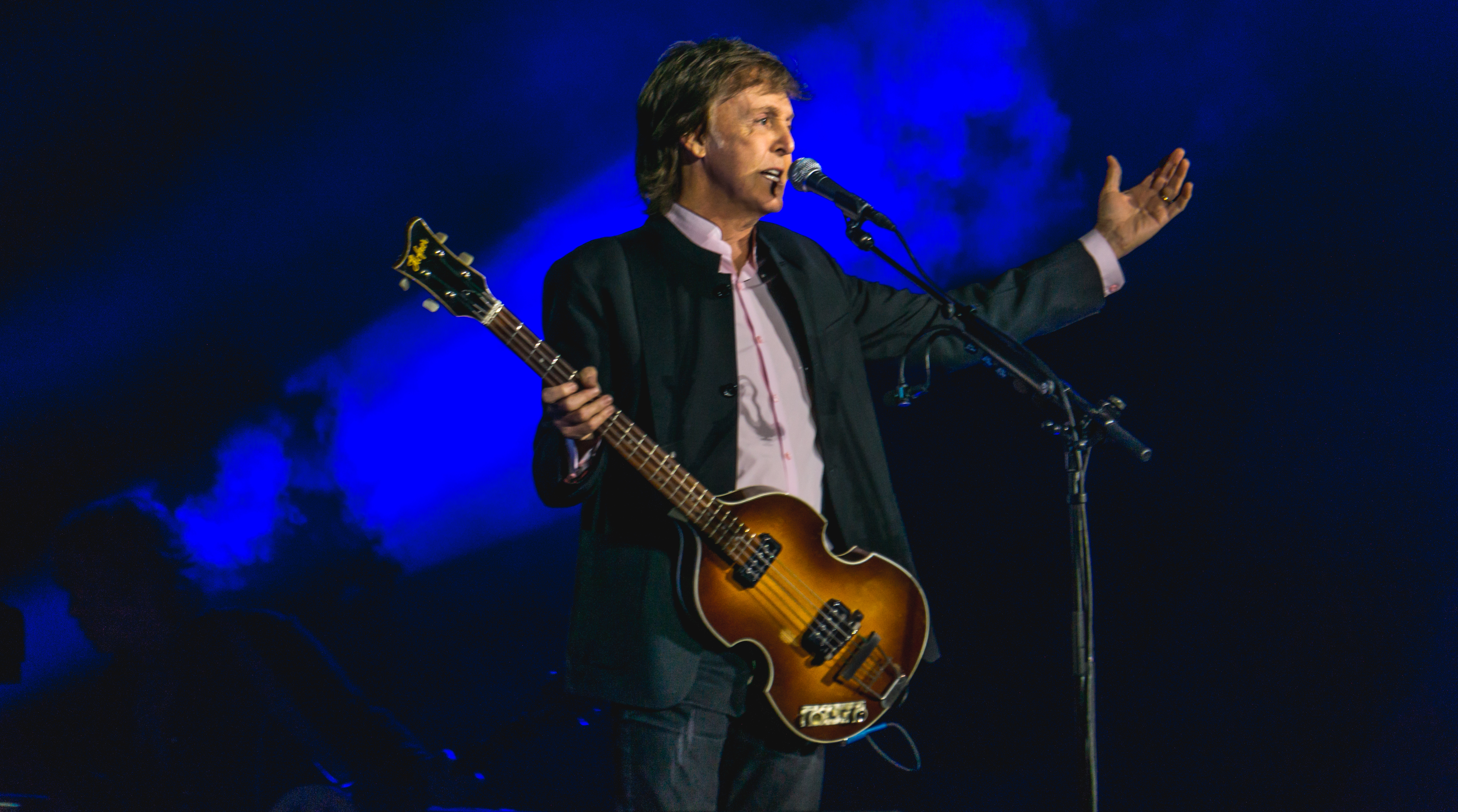 A performance by Paul McCartney on October 8, 2016 from the music festival Desert Trip, held at the Empire Polo Club